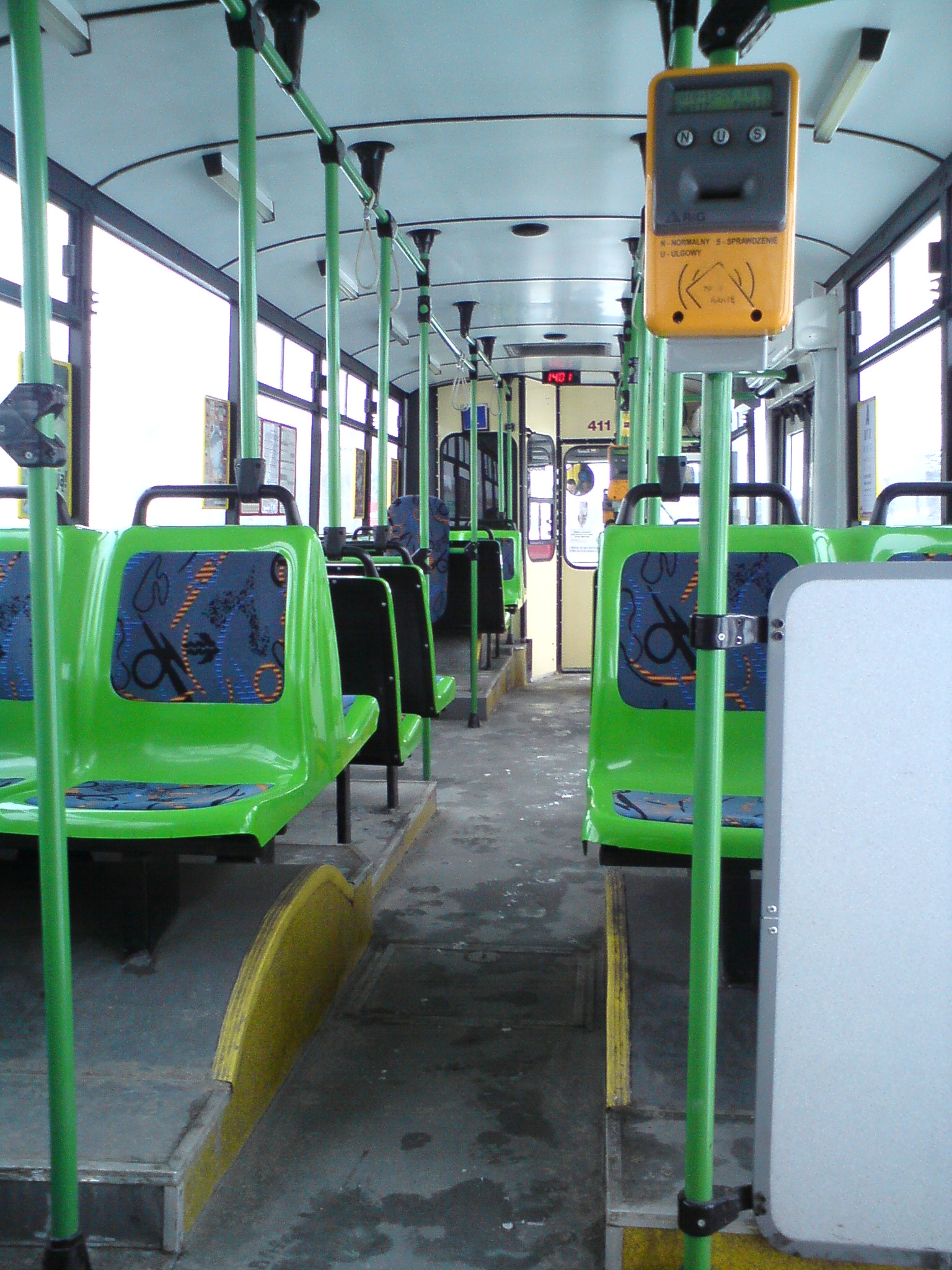 Jelcz 120MM/2 bus interior (#411) in Inowrocław, Poland. Built 1998, MPK Inowrocław operator.